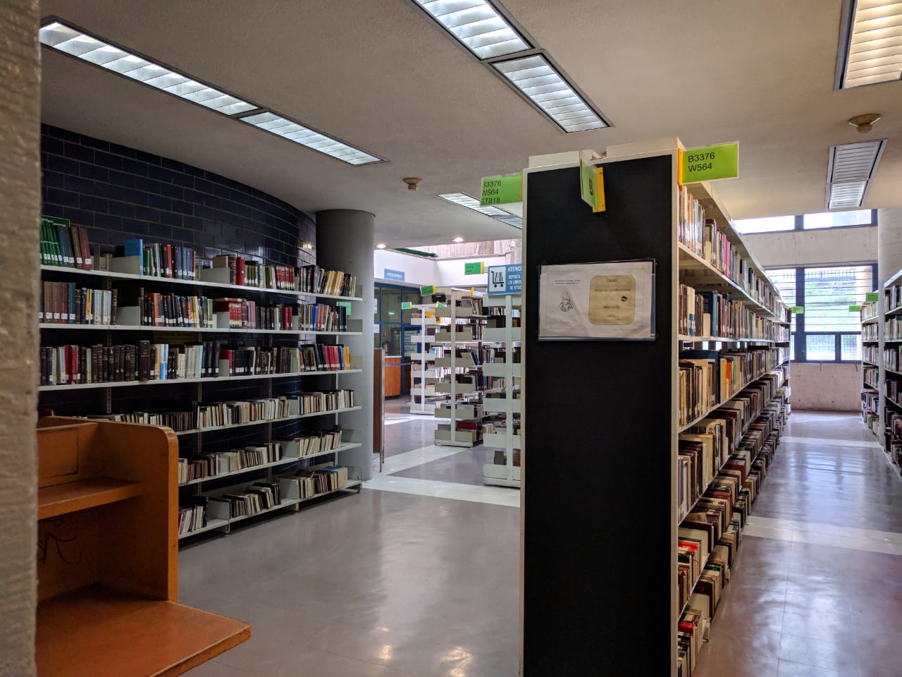 First section of Samuel Ramos library